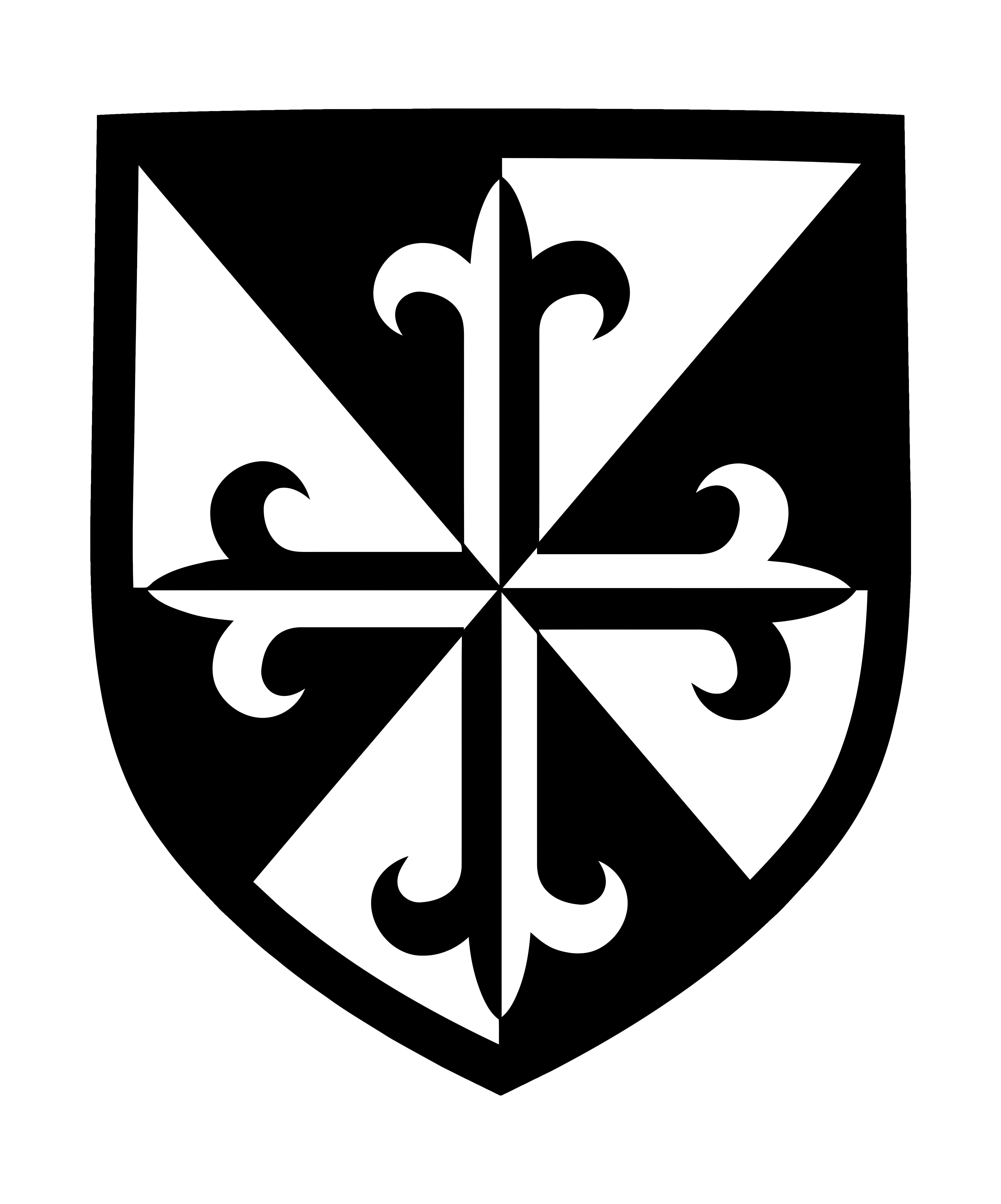 Orden de Predicadores